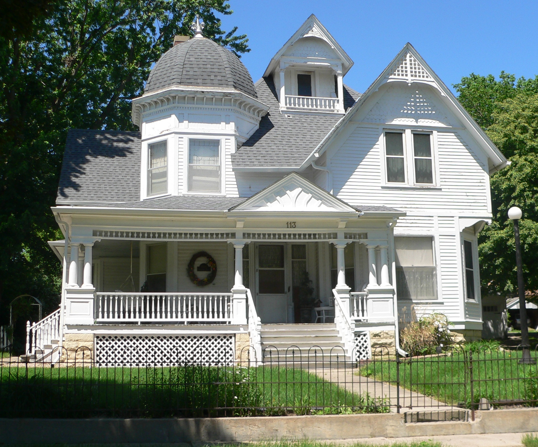 Lake Bridenthal house, at 113 S. 9th Street in Wymore, Nebraska; seen from the east.